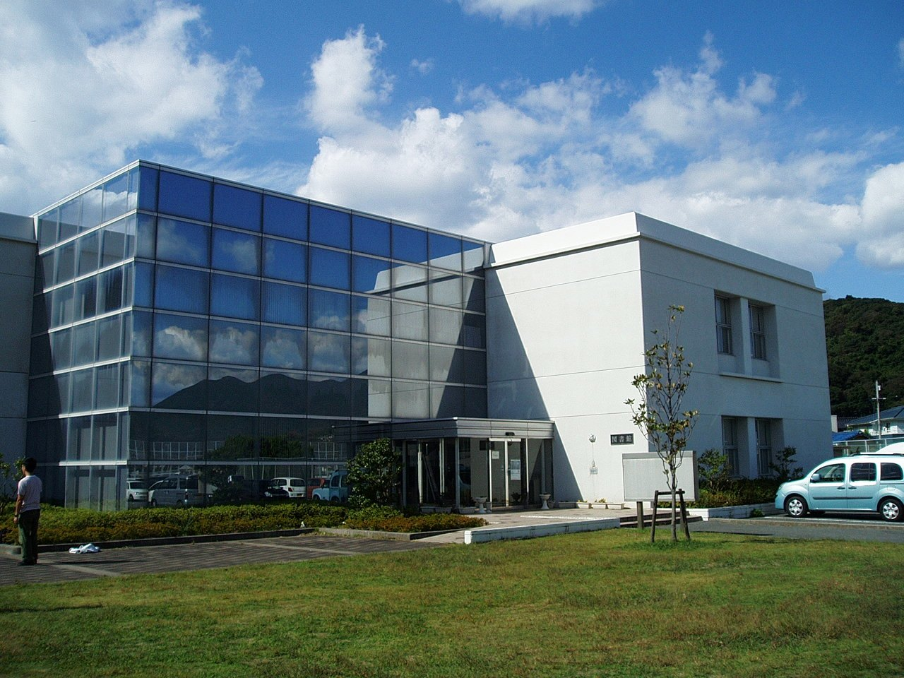 Library of the National Fisheries University (Japan), located in Shimonoseki, Yamaguchi, Japan.